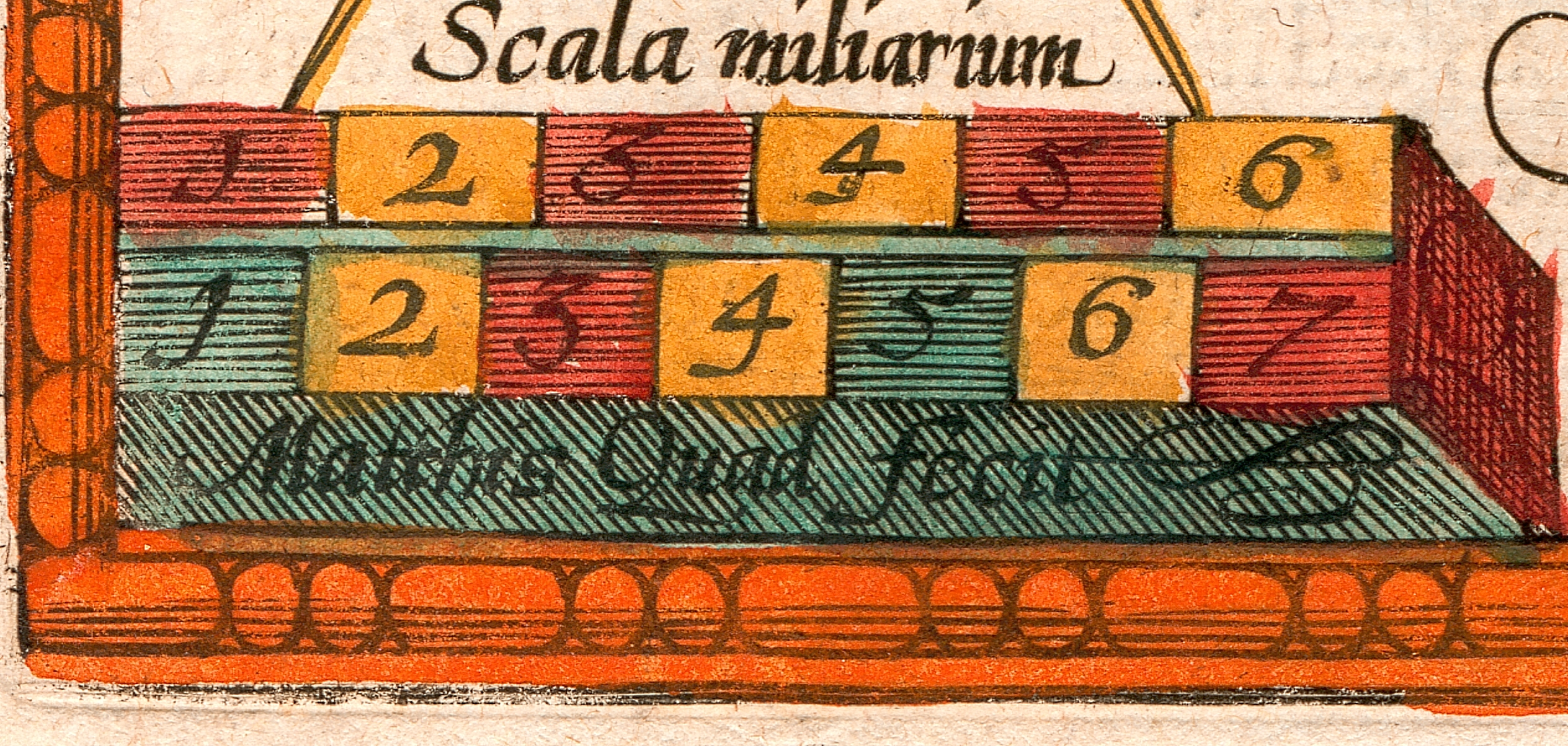 Map of the county of Flanders by Matthias Quad (cartographer) and Johannes Bussemacher (engraver & publisher, Cologne): detail with the name of the cartographer